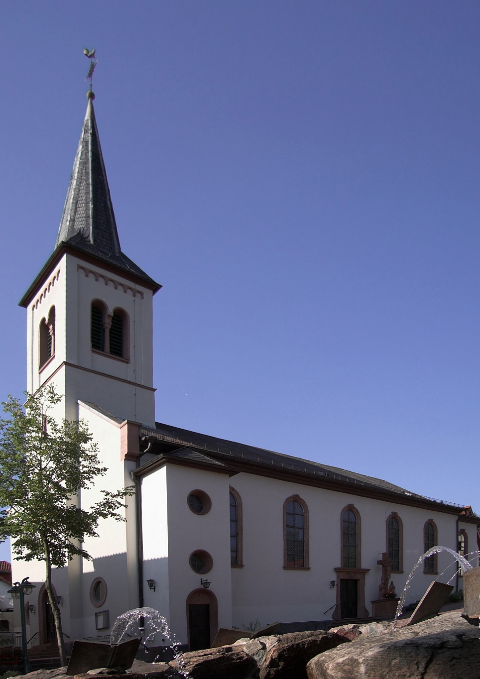 Catholic church, Wald-Michelbach Kameradaten: Canon Powershot s70, for the rest see exif-data